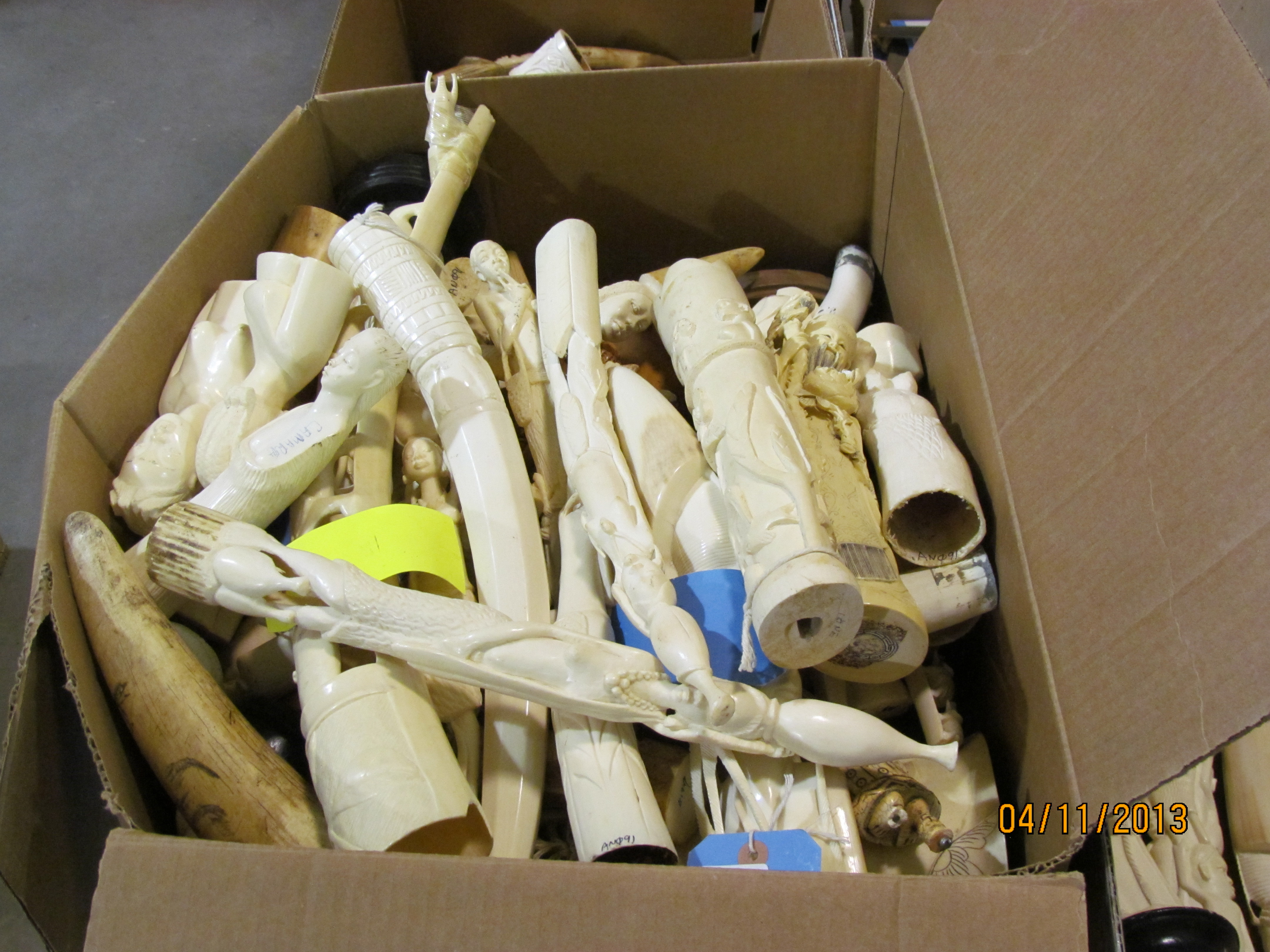 Boxed carvings and small tusks